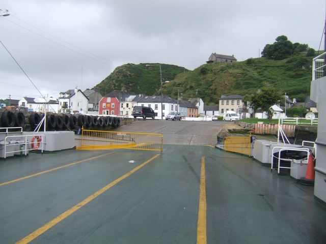 The first ferry of the day from Passage East. The service starts at half past nine on Sunday mornings.